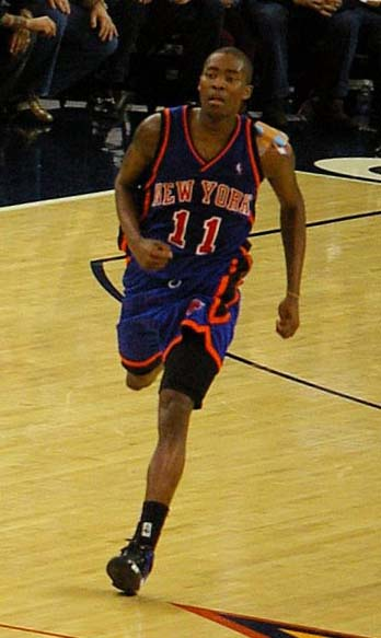 This file has been extracted from another file: Another Monta Drive.jpg